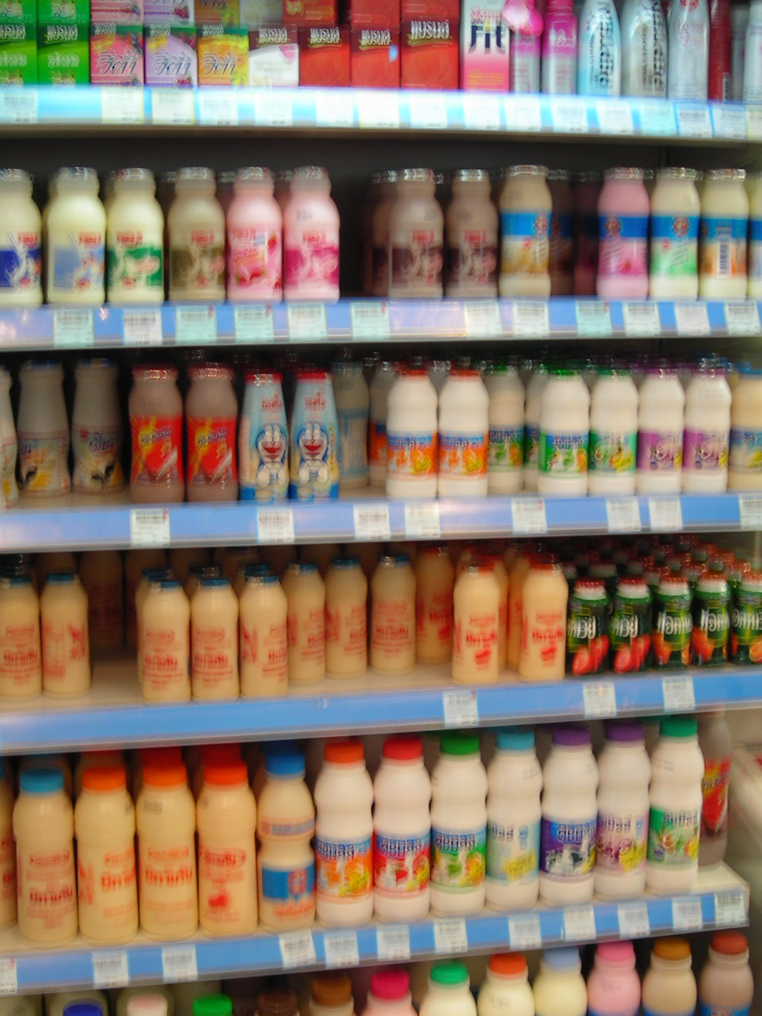 Thai Dairy products plastic bottles for sale at FamilyMart (Suvarnabhumi International Airport (Thailand).